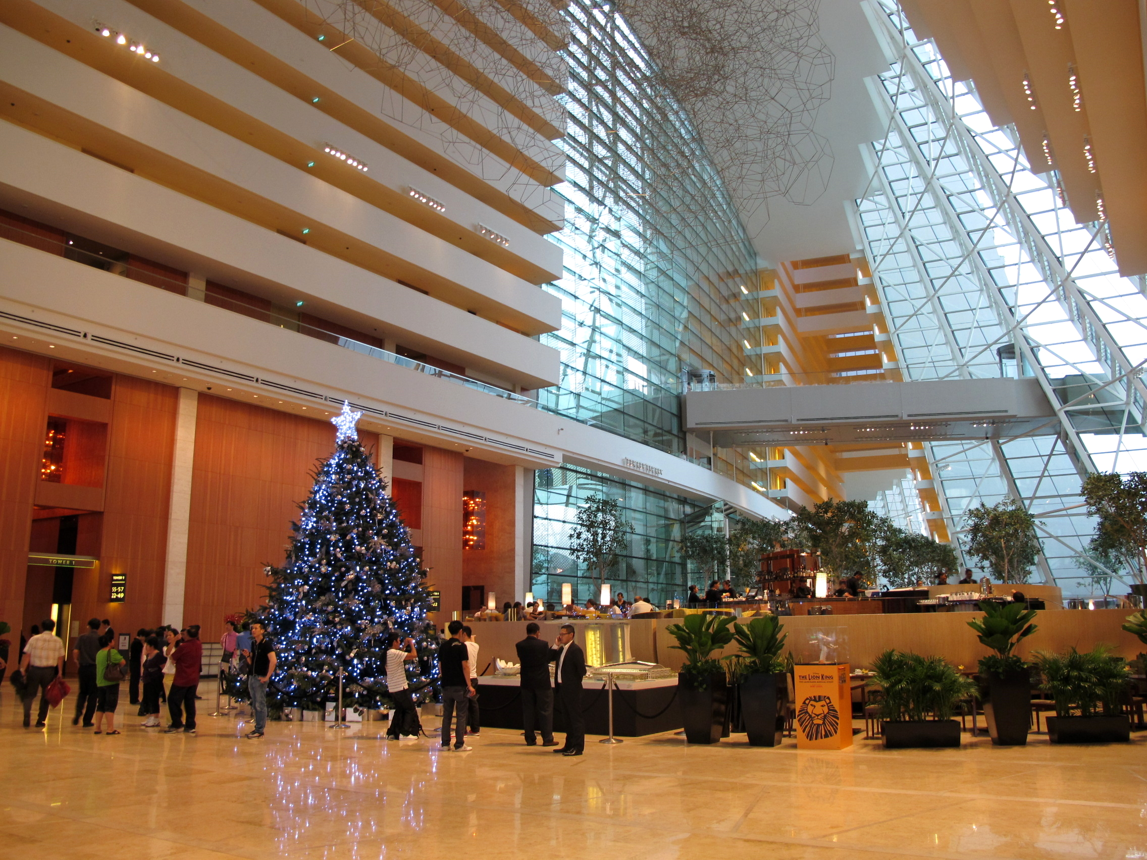 Marina Bay Sands Hotel Lobby view